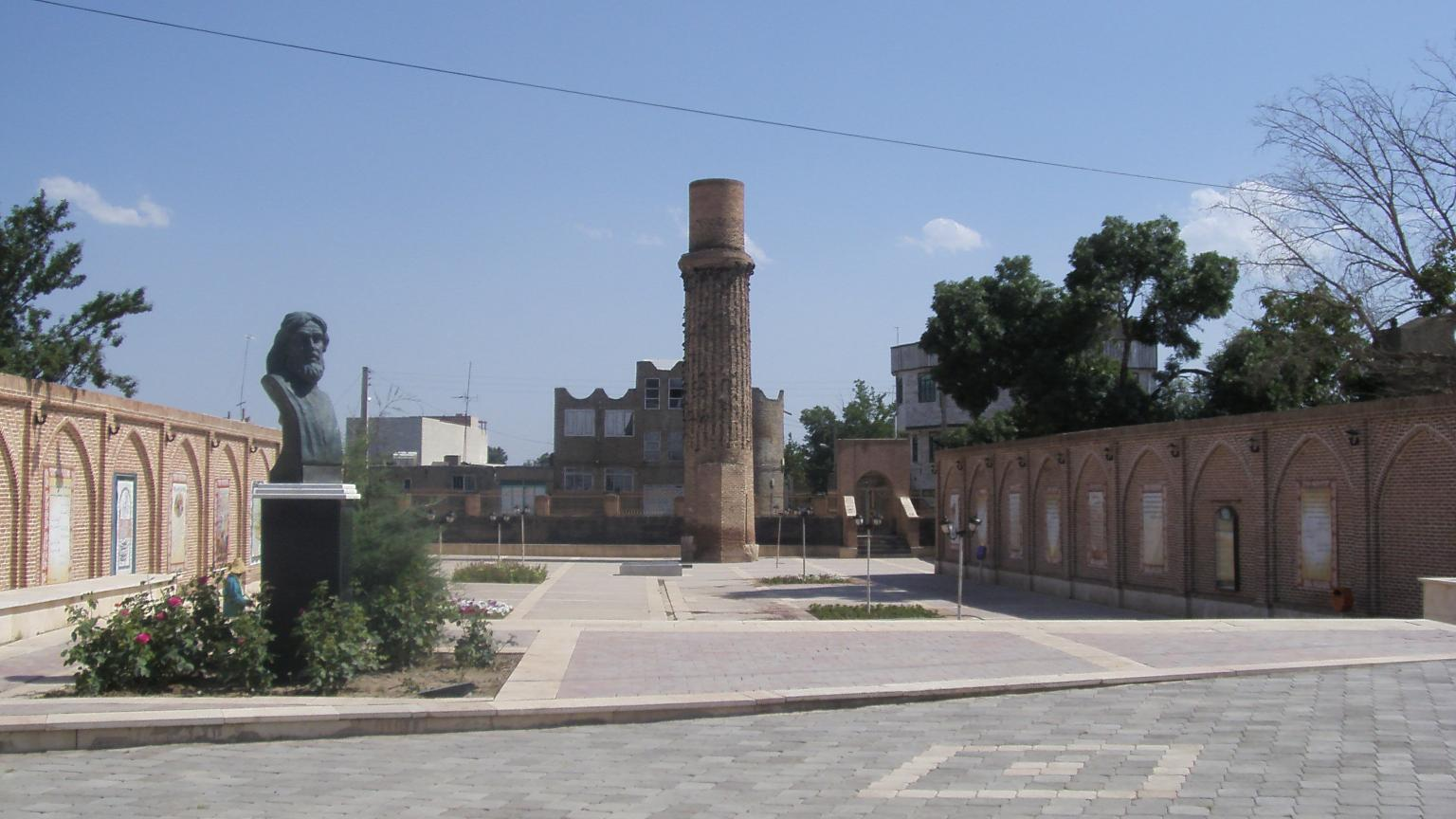 Bust, monument tower, and Tomb of Shams Tabrizi — in Khoy, South Azerbaijan province, Iran. Poet from Ancient Persia.